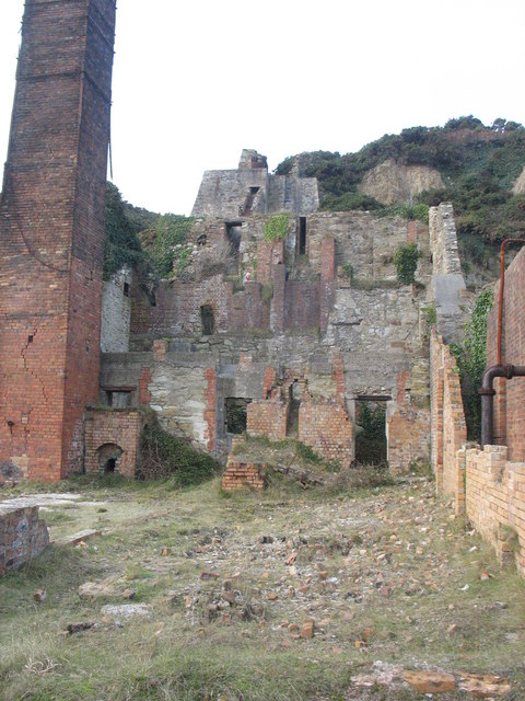 Silica bunkers at Porth Wen Brick Works Rock arriving down the incline from the Graig Wen Quarry arrived at the top of the structure - the steel "knapper" used to crush the rock can be seen at the top most level. Pieces of rock then descended down shutes through the various levels where they were further processed - reaching the lower bunkers in almost powder form ready for brick making.